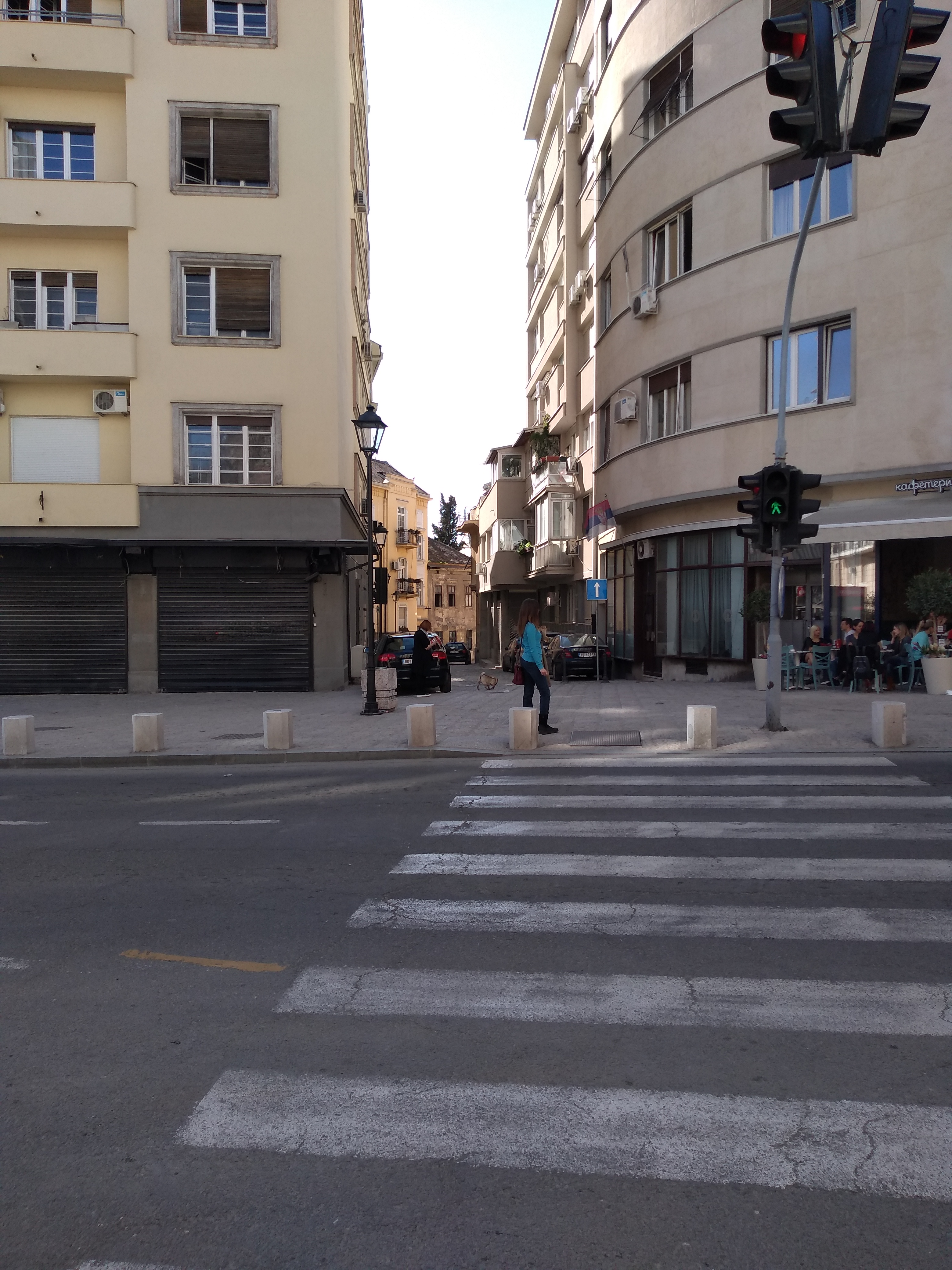 Zadarska street in Belgrade, near Kosancic venac, Serbia Srpski (latinica): Zadarska ulica koja izlazi na Kosančićev venac u Beogradu, pogled iz Pop Lukine ulice.